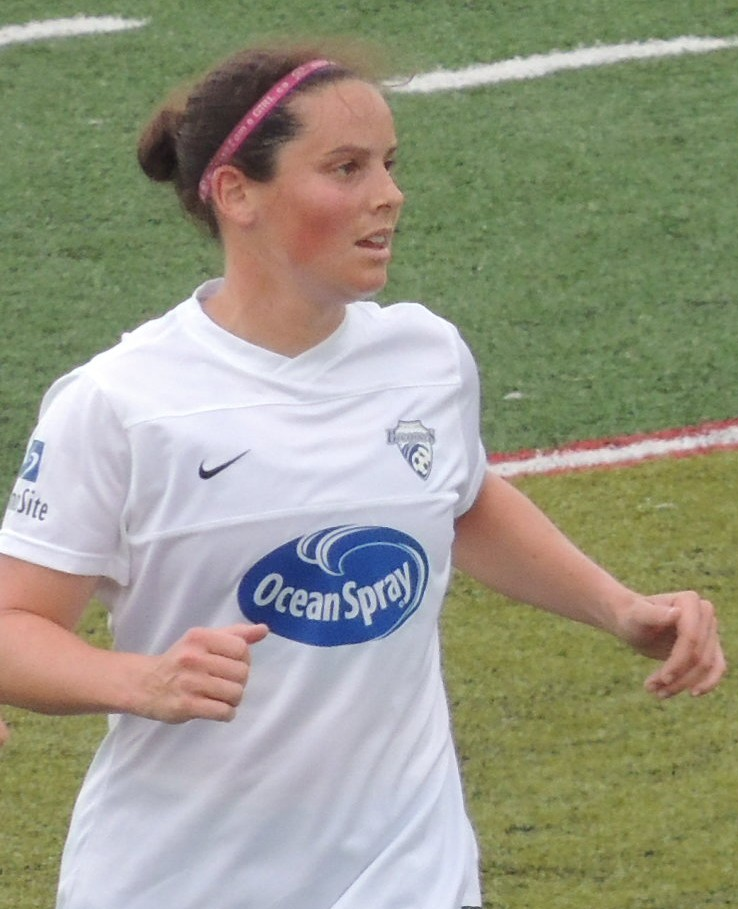 Rhian Wilkinson, soccer player; 2013-06-09 Chicago Red Stars vs Boston Breakers